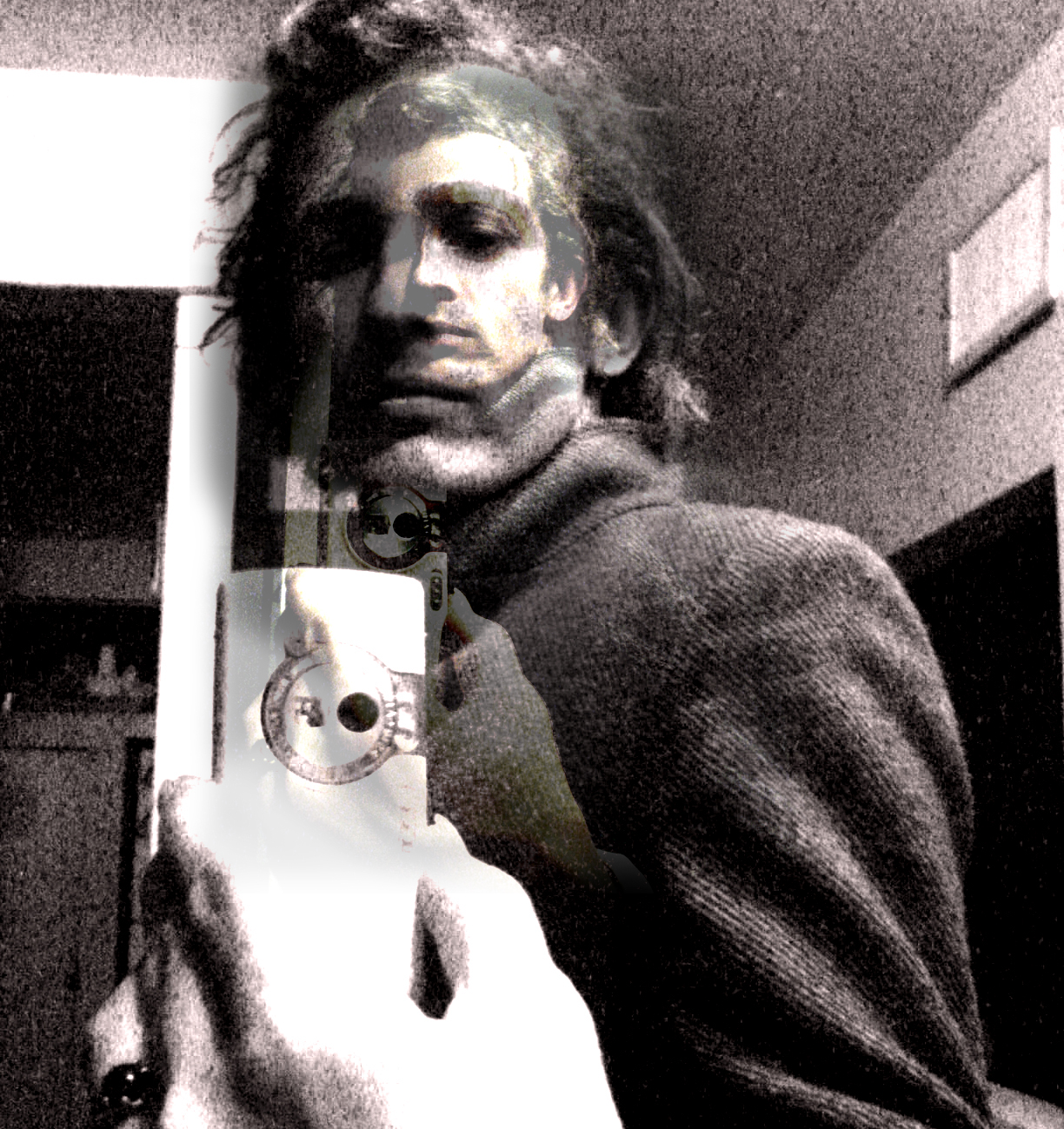 Self[own]: Tao Ruspoli, taken with sony w800 cell phone